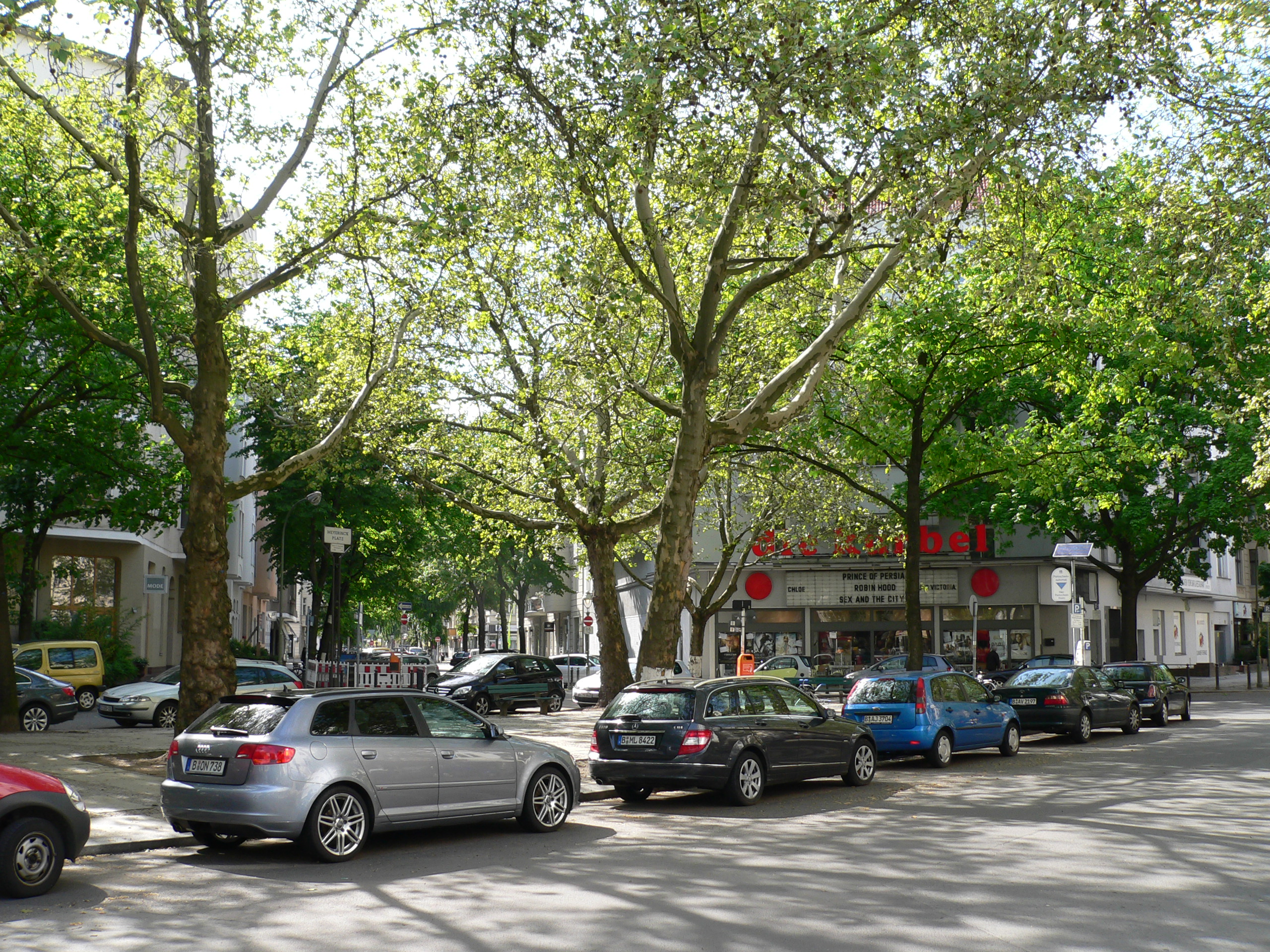 Berlin-Charlottenburg Meyerinckplatz